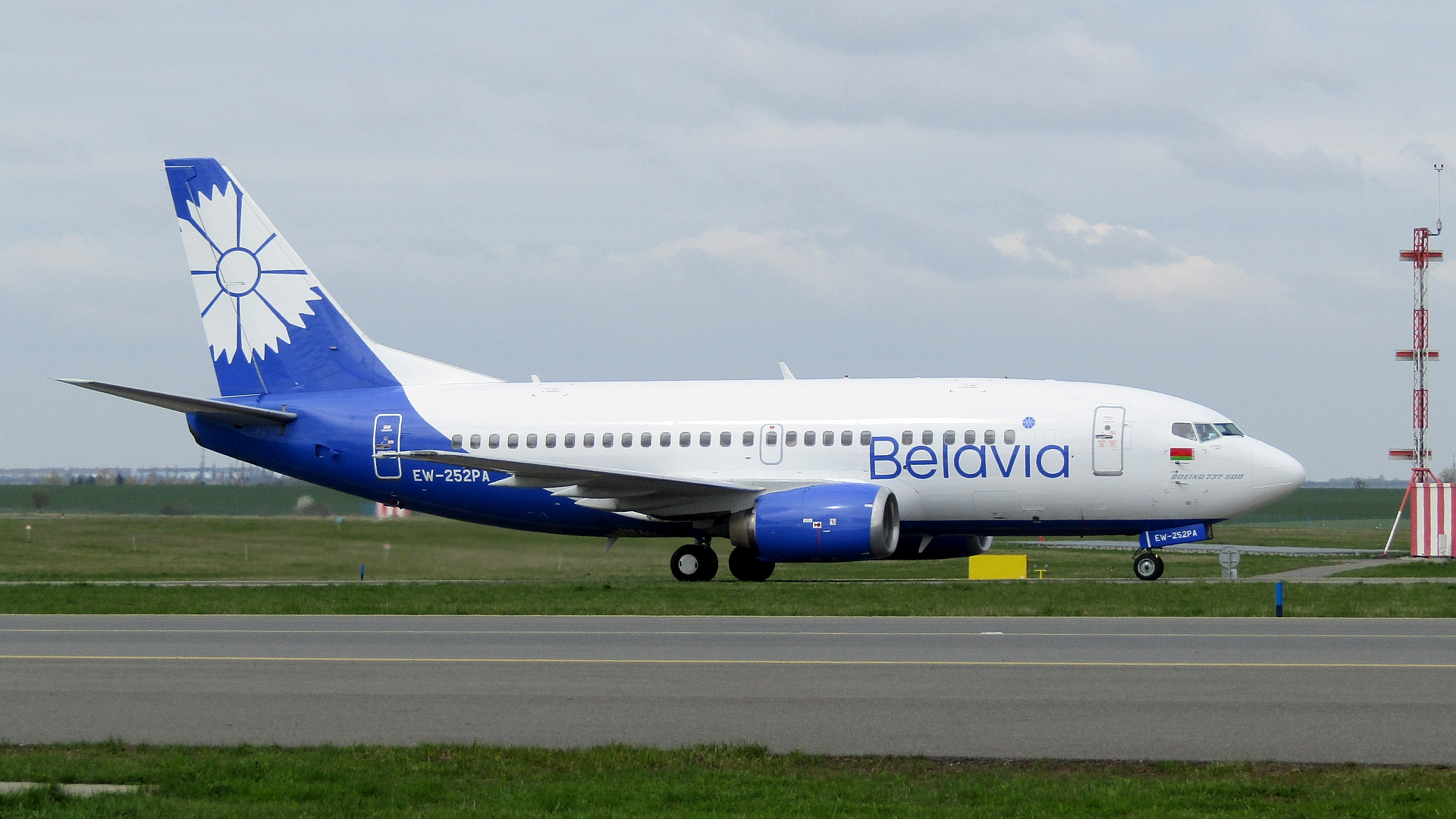 Boeing 737-500, Belavia, PRG